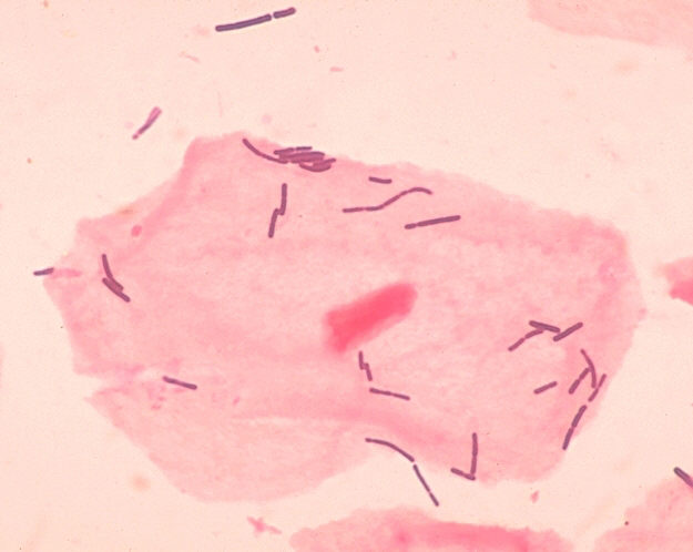 Lactobacillus organisms and vaginal squamous epithelial cell. Bacteria appeared as gram-positive rods among squamous epithelial cells and neutrophils in this vaginal smear.